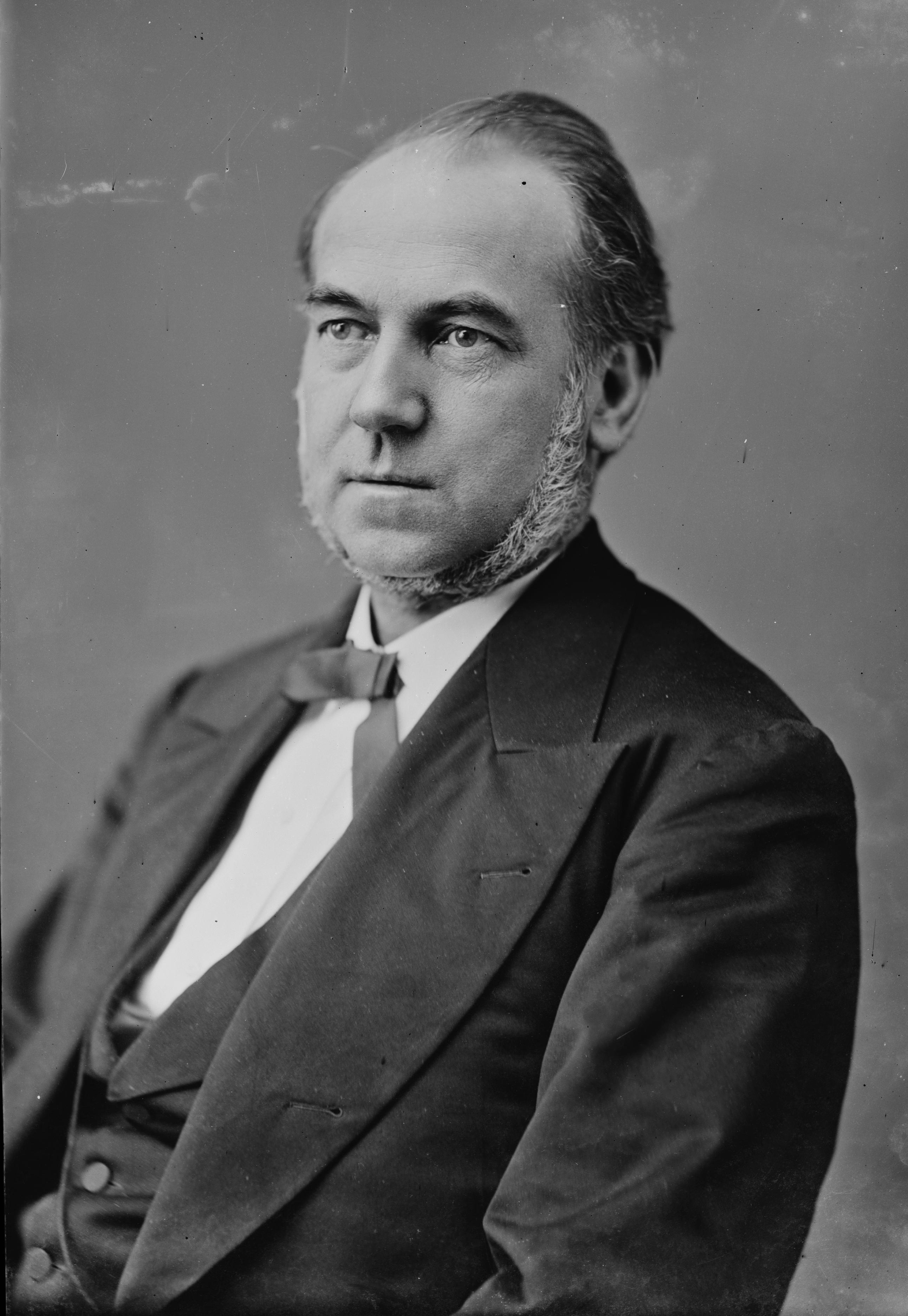 John Black Packer. Library of Congress description: "Packer, Hon. John B. of Pa. M.C."